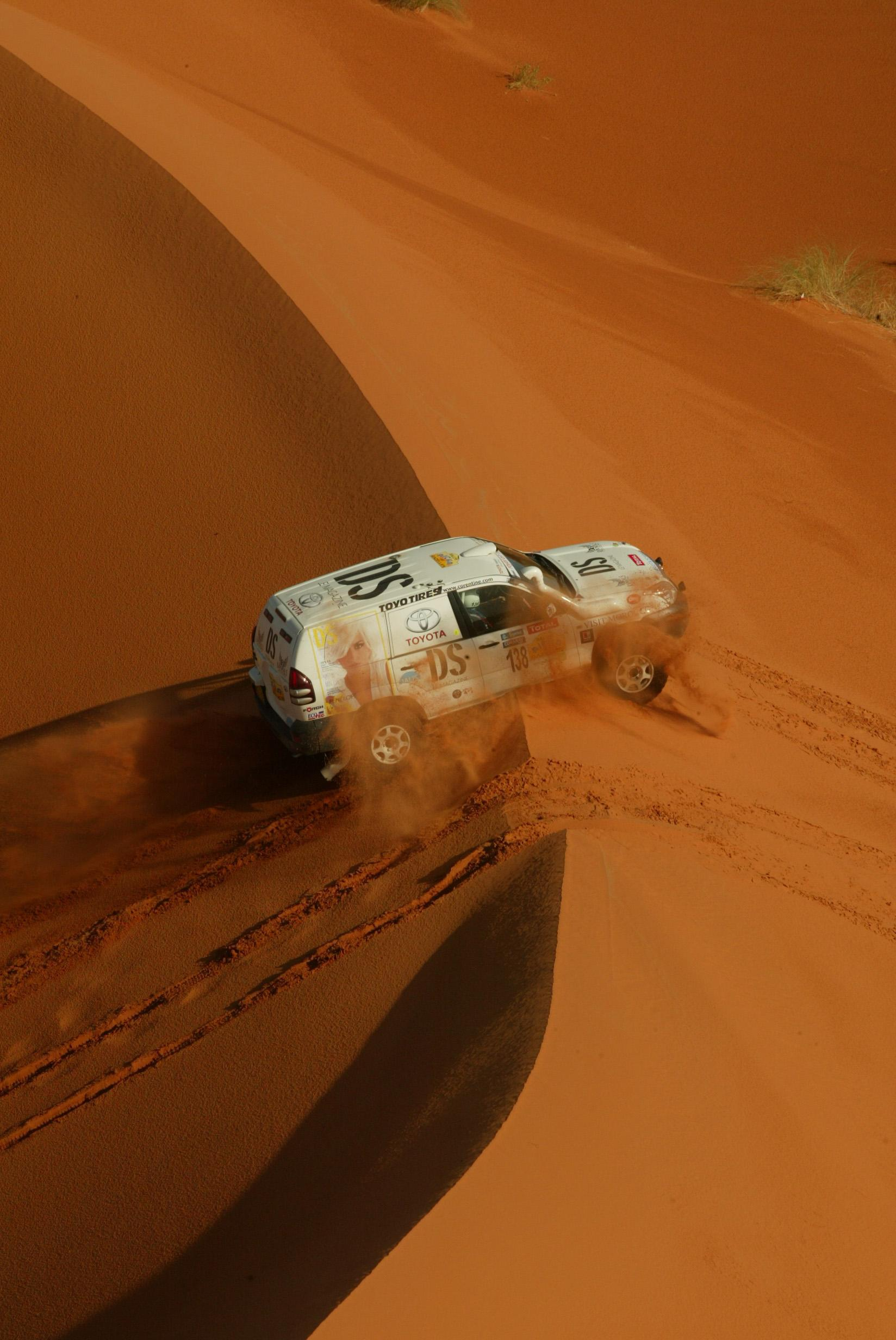 The winning 4x4 team 138 (Migraine Bourgnon/Quiniou jumping the dunes with their Toyota Landcruiser